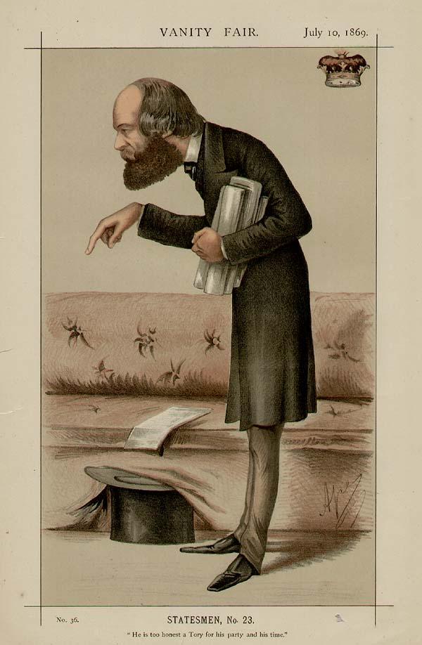 Statesmen No.23: Caricature of The Marquis of Salisbury. Caption reads "He is too honest a Tory for his party and his time".